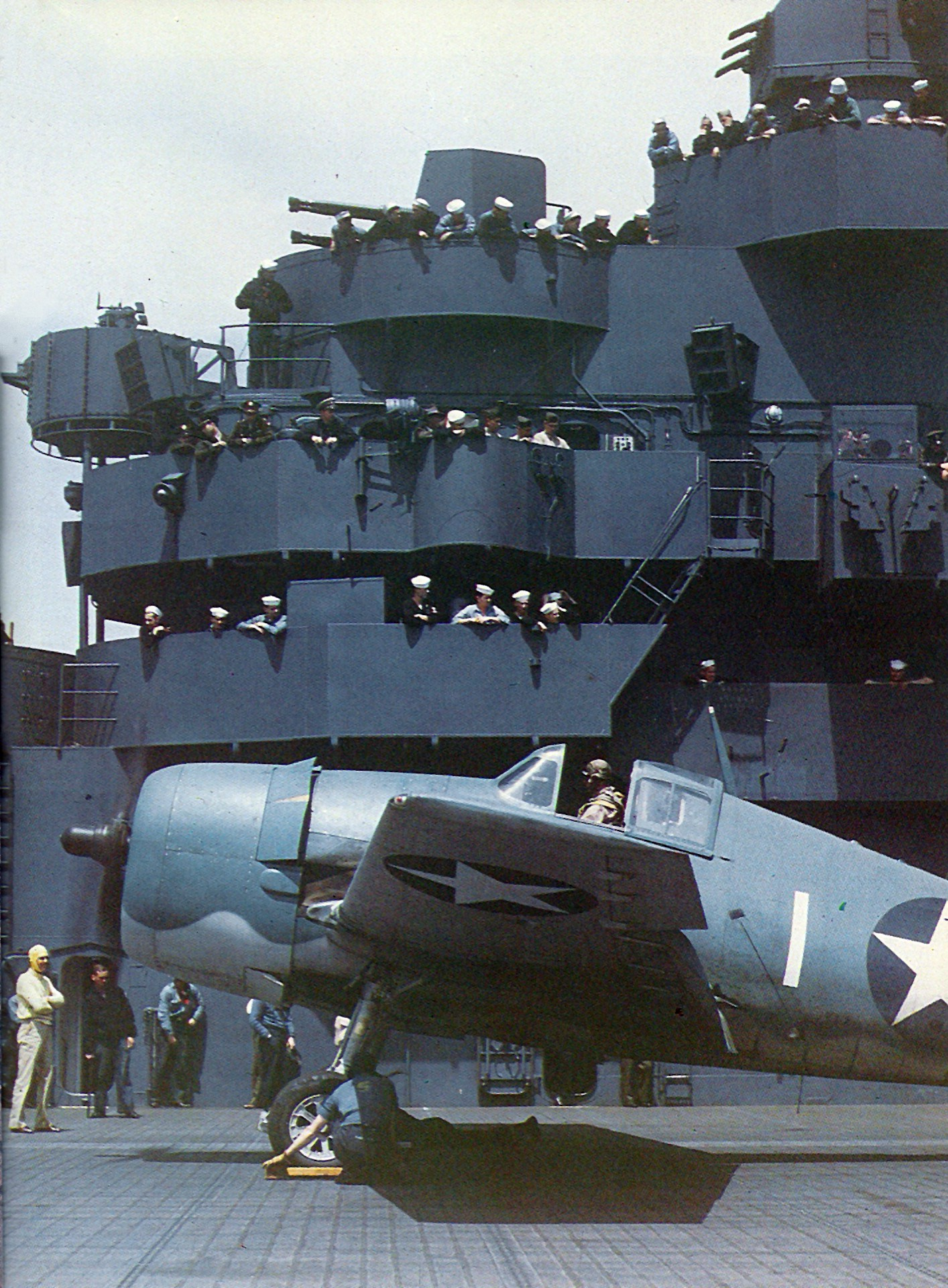 A U.S. Navy Grumman F6F-3 Hellcat of fighter squadron VF-1, Carrier Air Group 5 (CVG-5), aboard the aircraft carrier USS Yorktown (CV-10) in May 1943. It is painted in the the non-specular blue-grey over light-grey scheme. VF-1 was redesignated VF-5 in July 1943.